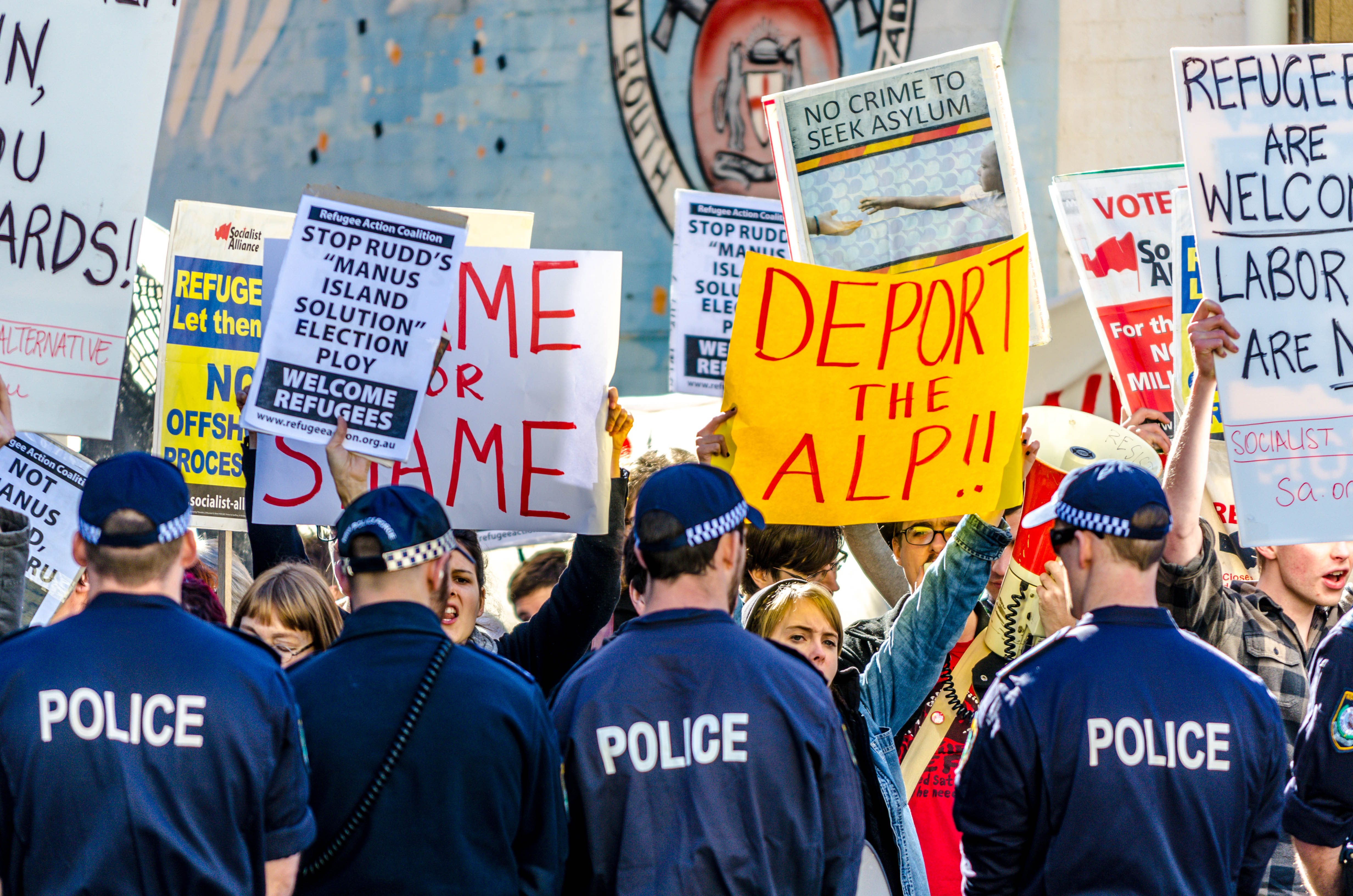 Rowdy protesters outside Balmain Town Hall for ALP caucus meeting